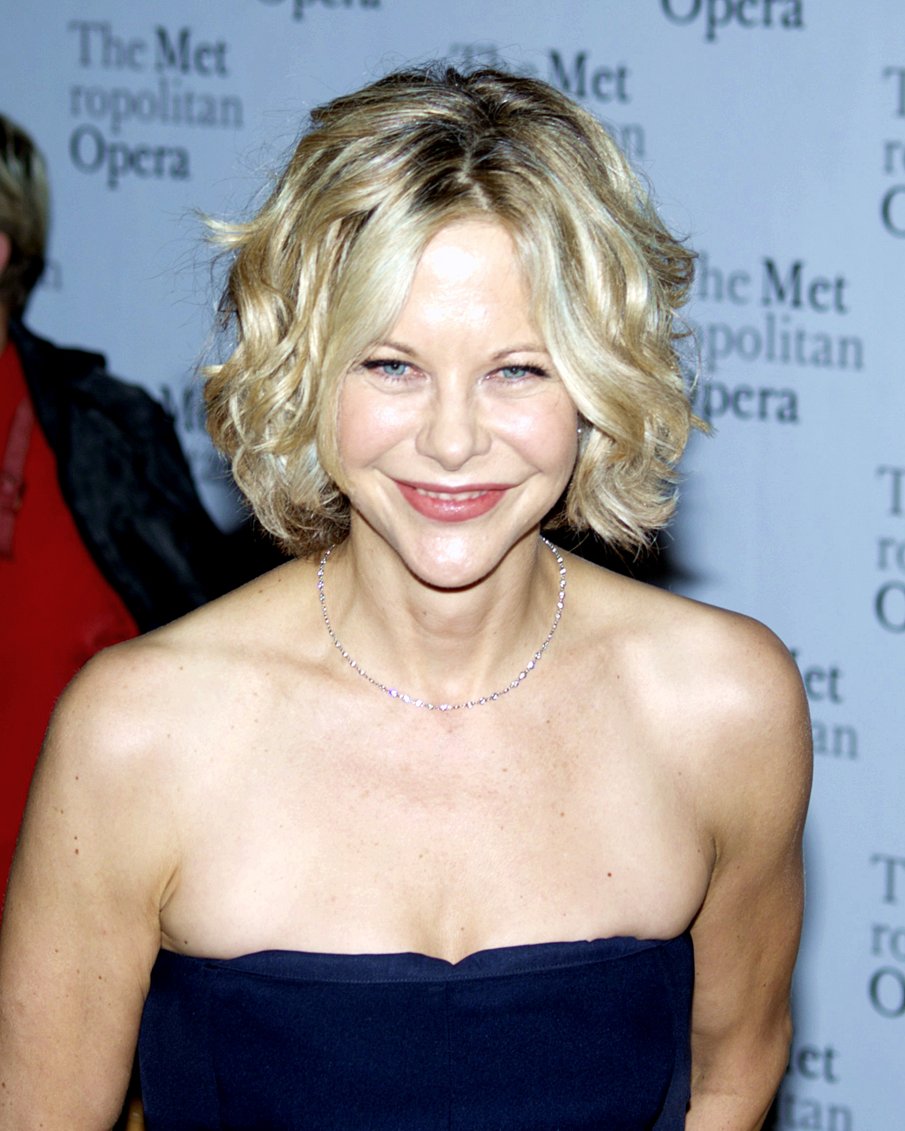 Meg Ryan at Metropolitan Opera's 2010-11 Season Opening Night - "Das Rheingold"